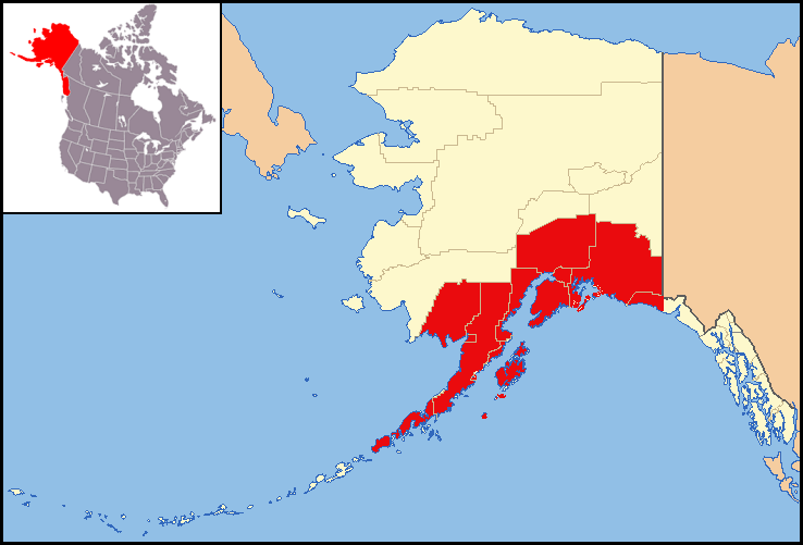 The Catholic Archdiocese of Anchorage covers most of southern Alaska, USA.